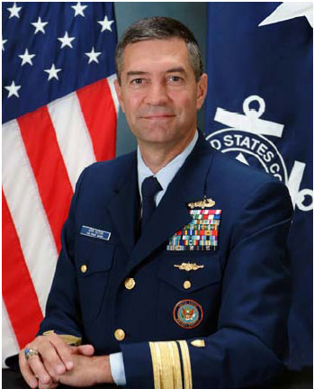 RADM John C. Acton, USCGR